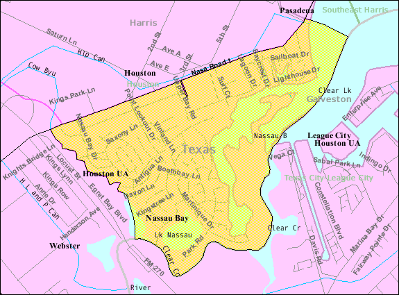 Nassau Bay